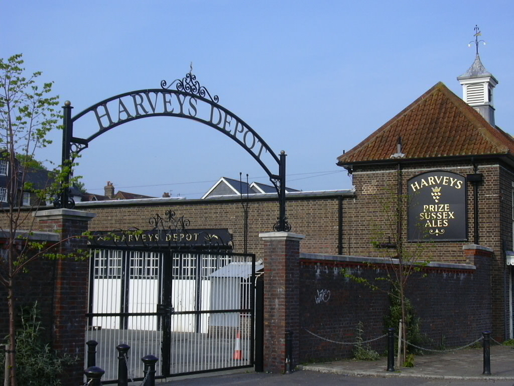 Depot of Harveys brewery in Lewes, Sussex, England